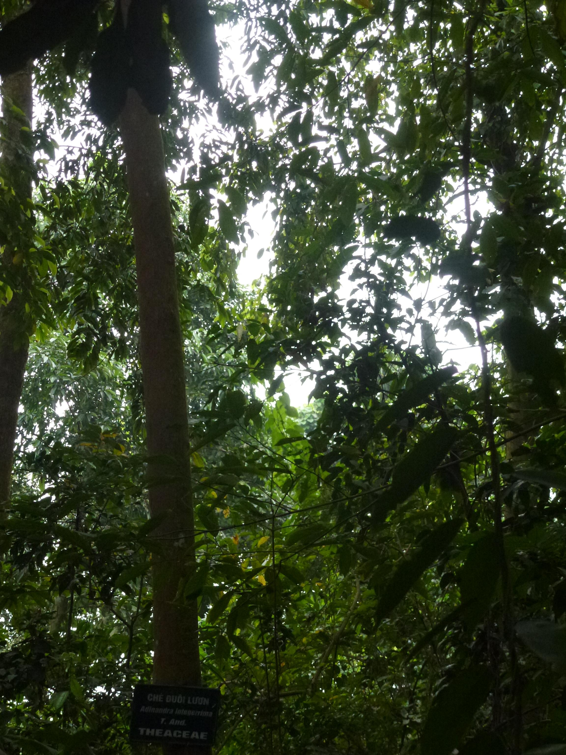 Adinandra integerrima at Hùng temple, Vietnam